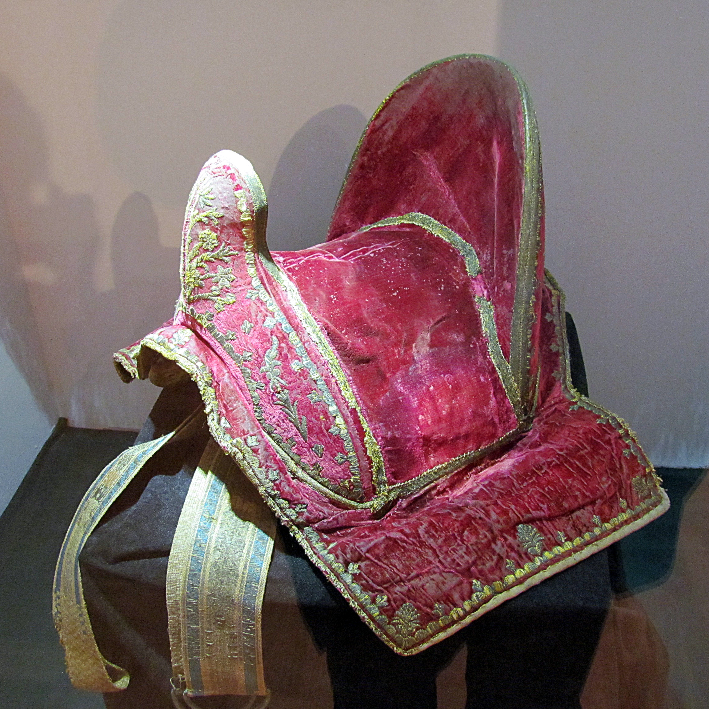 Saddle of Prince Mihailo Obrenovic